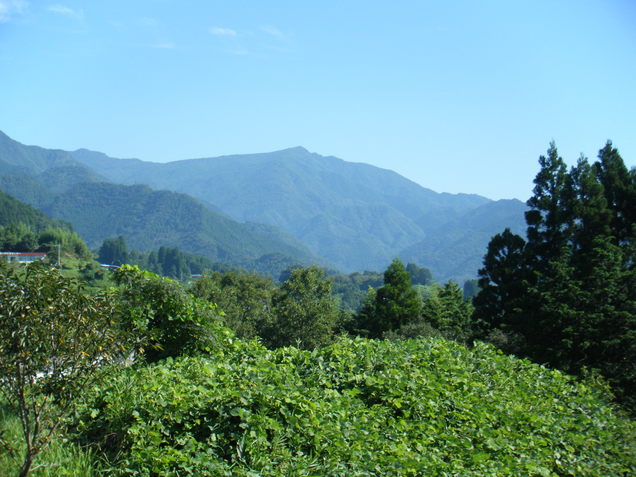 Mount Furusobo (Furusobo-san) as seen from the south.